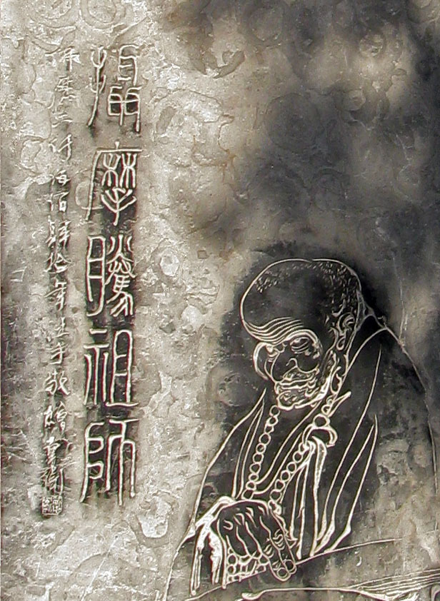 Tumulus Marker of Kasyapa Matanga with his image and name in Chinese located in Luoyang China's White Horse Temple. There are two tumulus - this one is located on the eastern side. His compatriot Dharmaratna is on the western side.